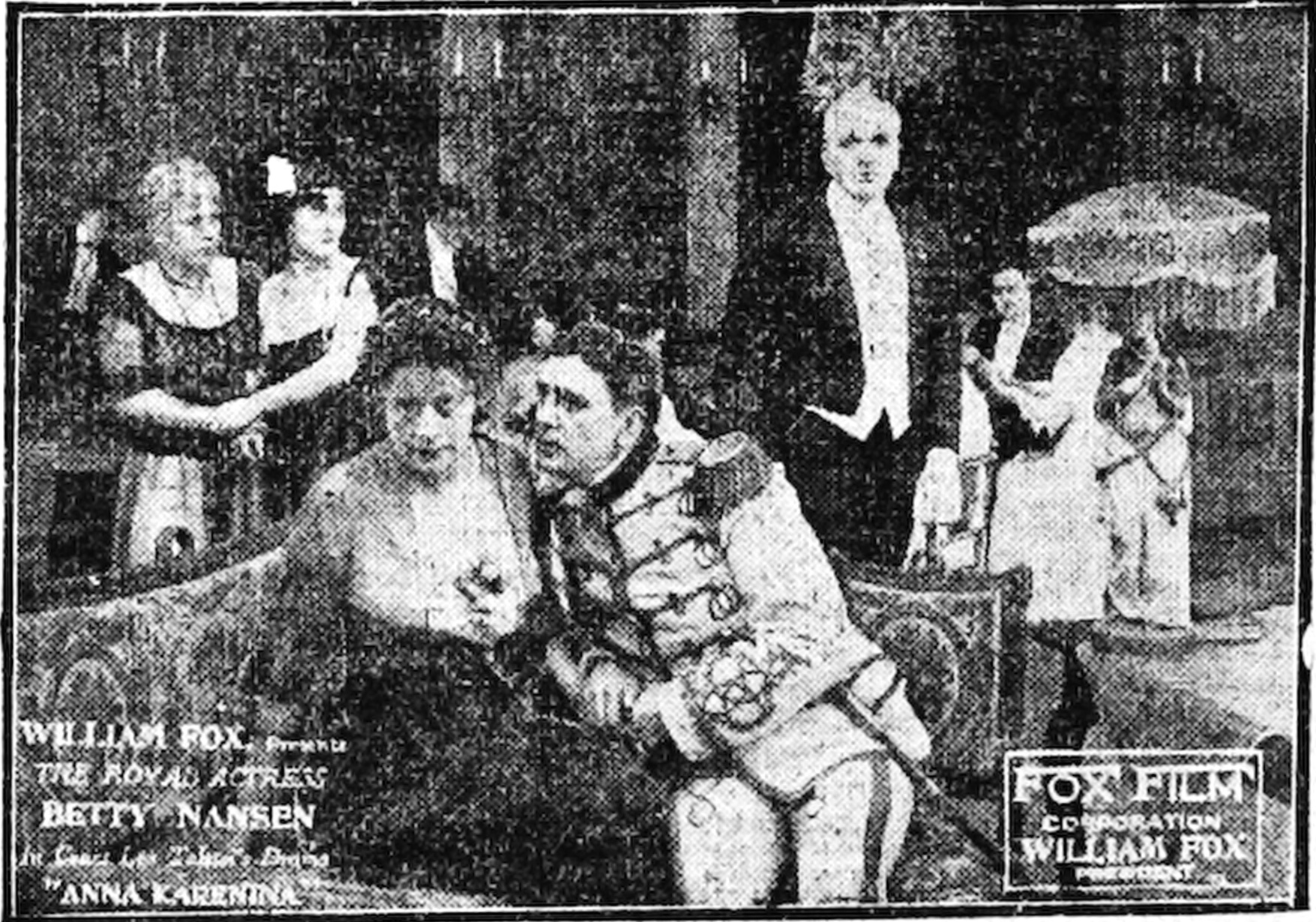 Anna Karenina was a 1915 American silent drama film directed by J. Gordon Edwards and starring Betty Nansen. This is a scene printed in a contemporary newspaper.